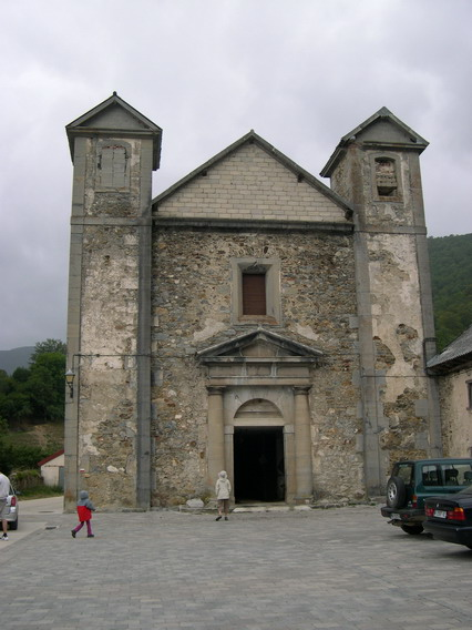 Church in Orbaitzetako Ola (Nafarroa).